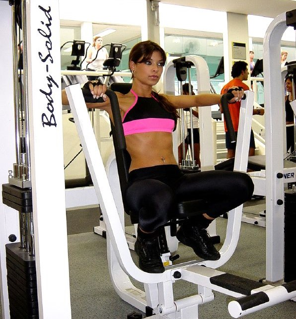 Cropped version of File:Amanda Françozo At The Runner Sports-6.jpg